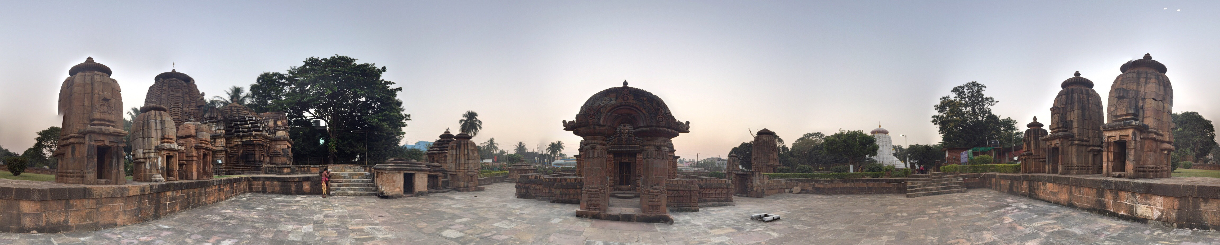 Header file of Access Bhubaneswar Editathon